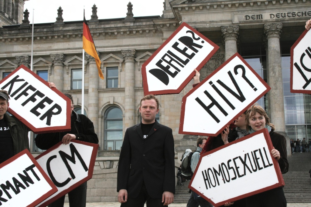 Critics on the telecommunications data retention in front of the Reichstag